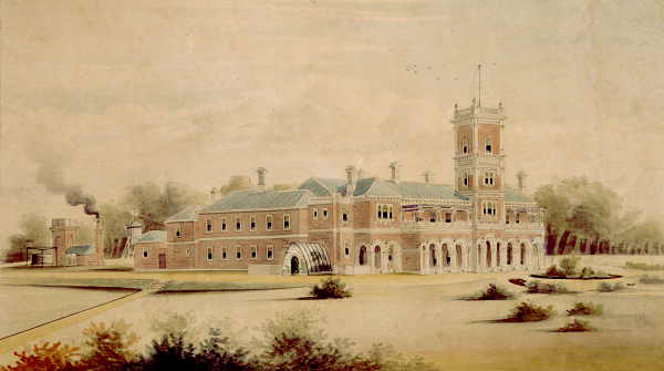 Date(s) of creation: ca. 1876- ca. 1877.